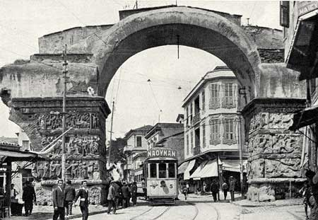 Arch of Galerius. Postcard